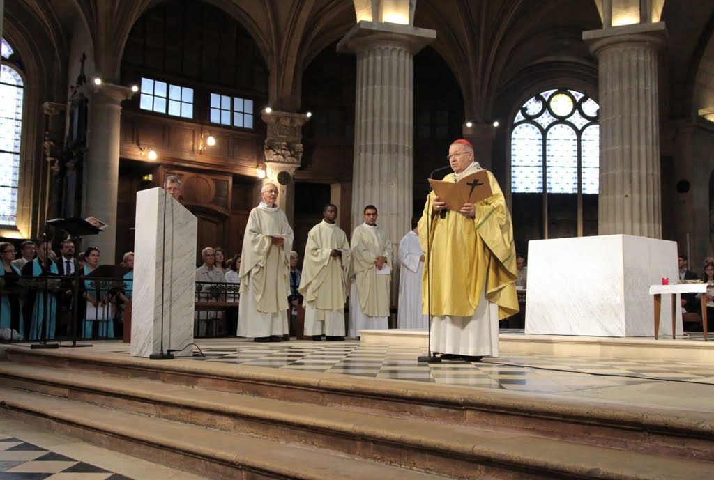 On September 11th, 2011 cardinal André Vingt-Trois Vingt-Trois archbishop of Paris dedicated the new altar